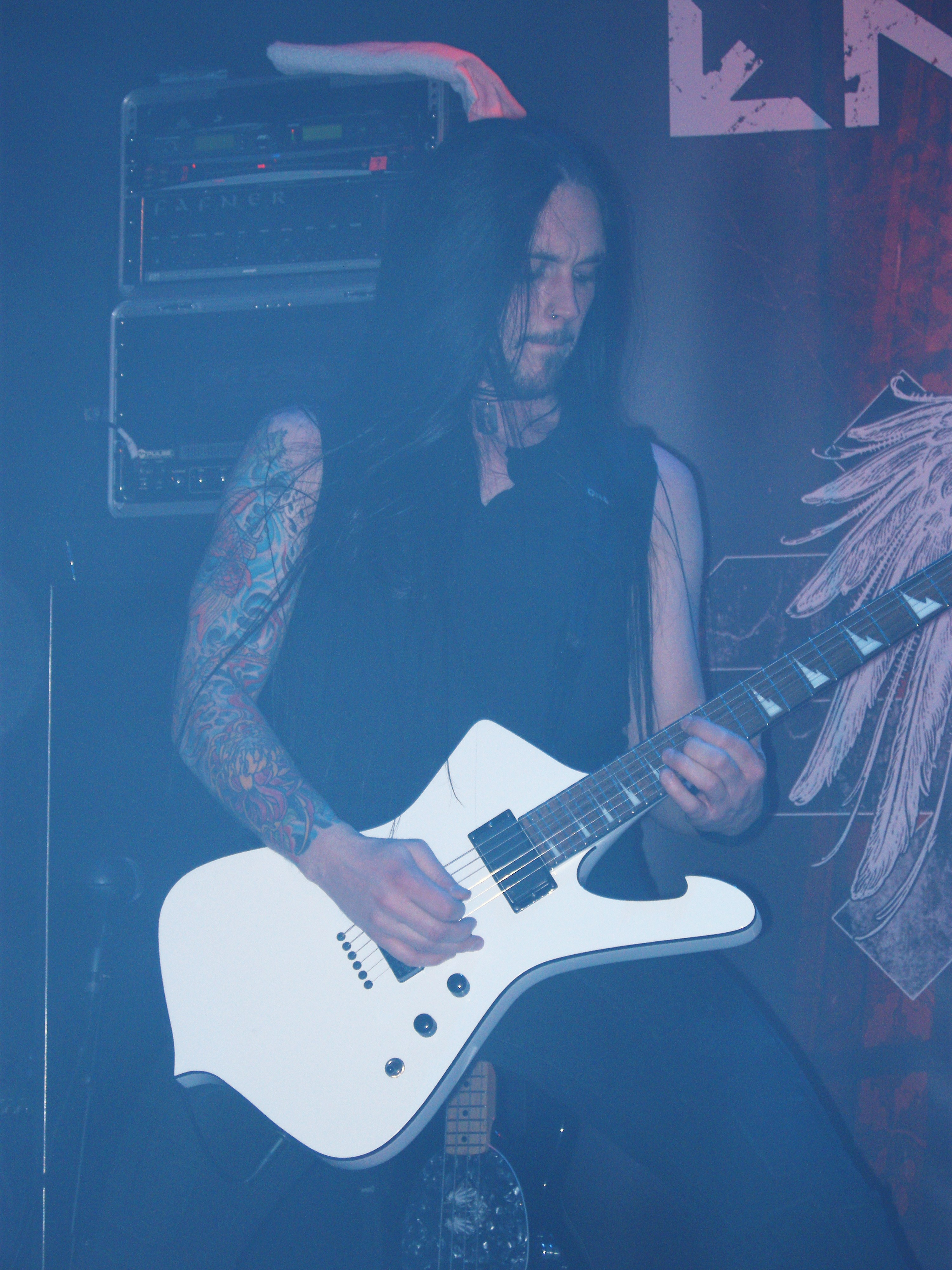 Marcus Sunesson, guitarist in Swedish metal band Engel, at The Close-Up boat 2011